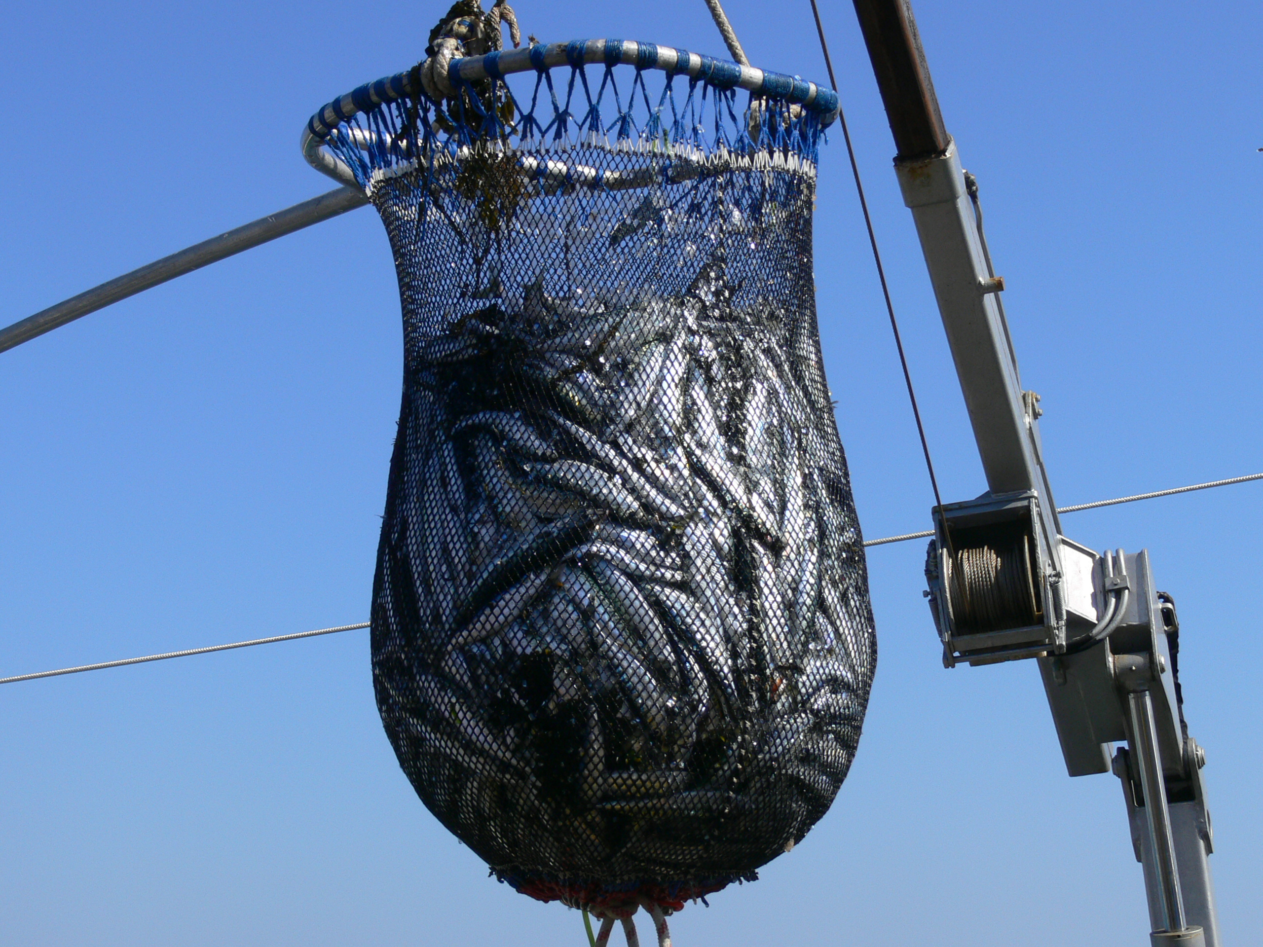 Quiberon, Bretagne, France, 2007 04 19